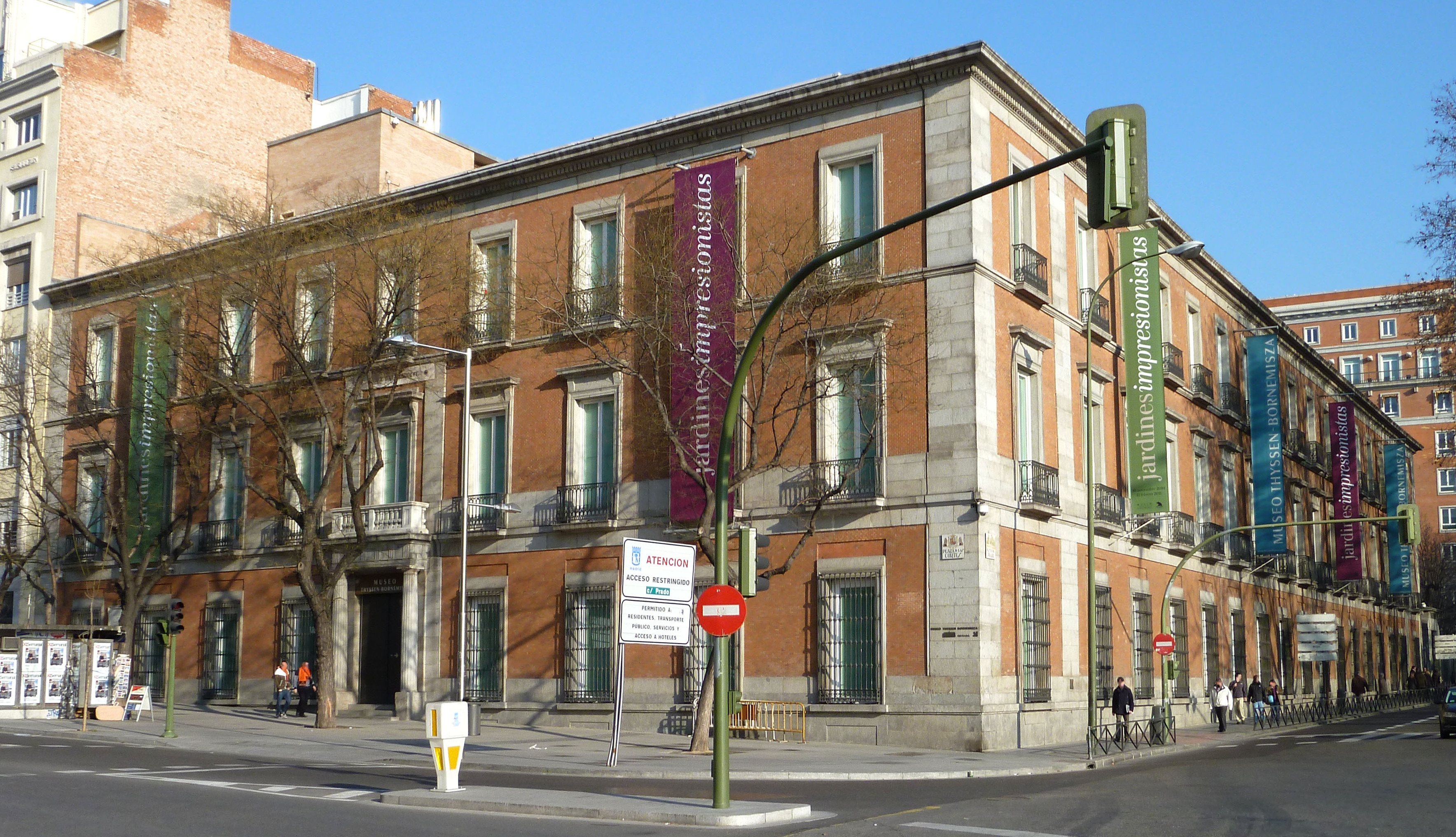 Exterior view of Villahermosa Palace (Thyssen-Bornemisza Museum) in Madrid (Spain).